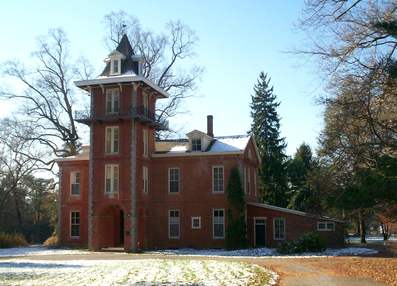 Cedarcroft, former home of author Bayard Taylor, in Kennett Square, Pennsylvania, as seen from the side. The home is today a private residence.